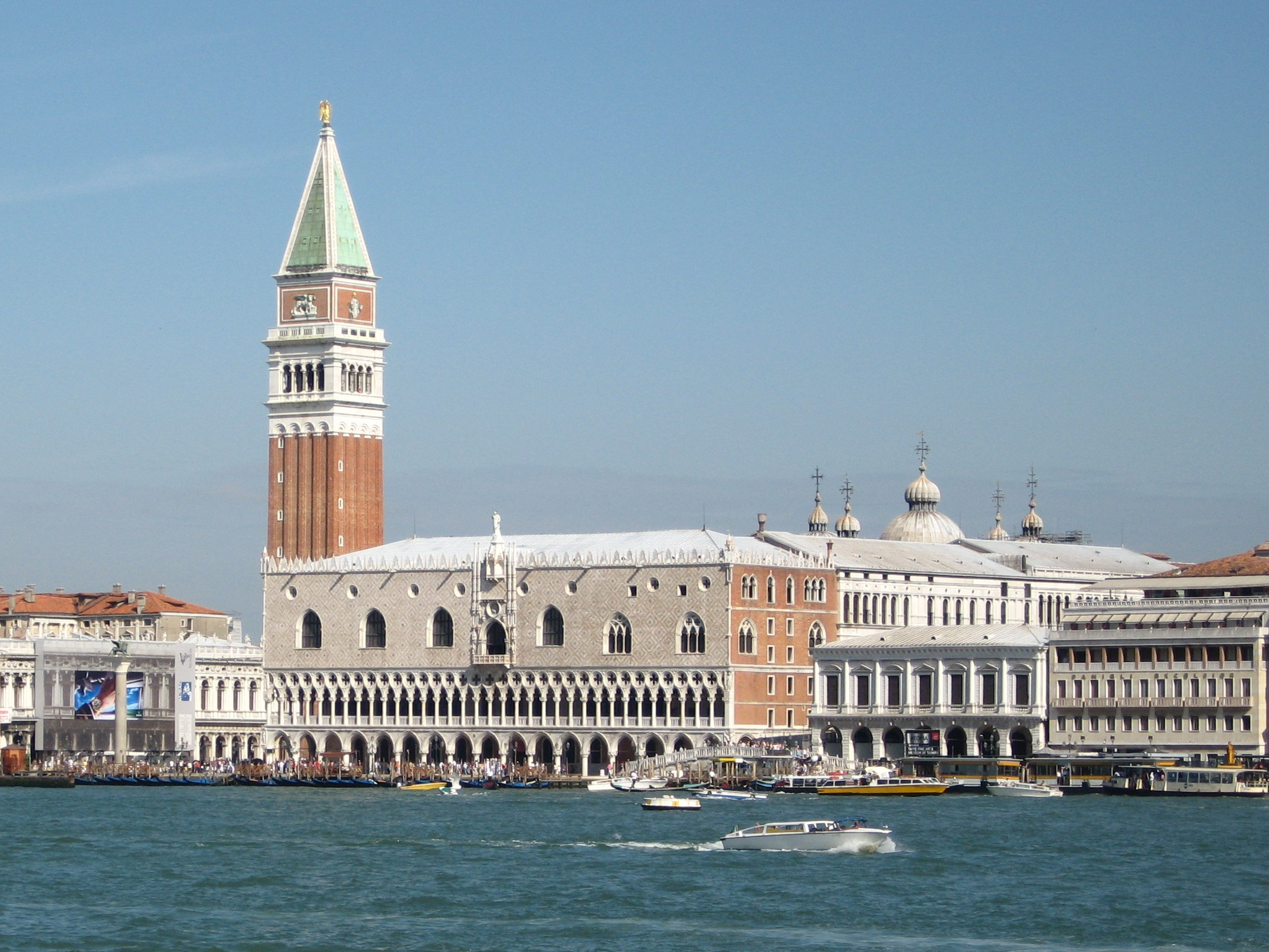 Campanile and Doge's Palace in Venice